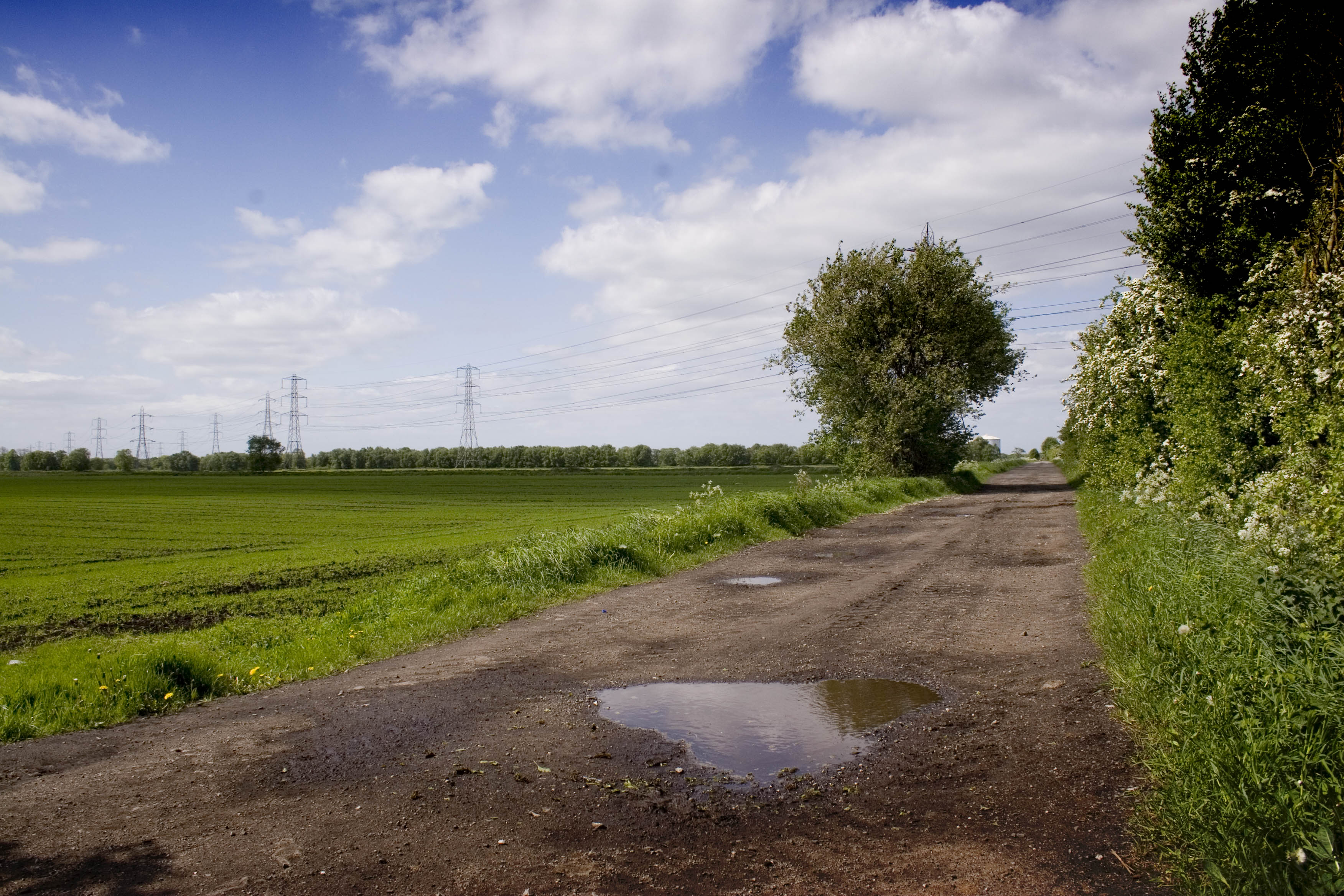 Ashton Road looking west from the junction at Isherwood Road. The pylons carry electricity to the substation on Isherwood Road.